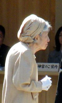 Atsuko Ikeda, Most Sacred Priestess of the Ise Shrine, attended the "Ujibashi-watari-hajime-shiki" at the Ise Shrine in Ise City, Mie Prefecture on November 3, 2009.